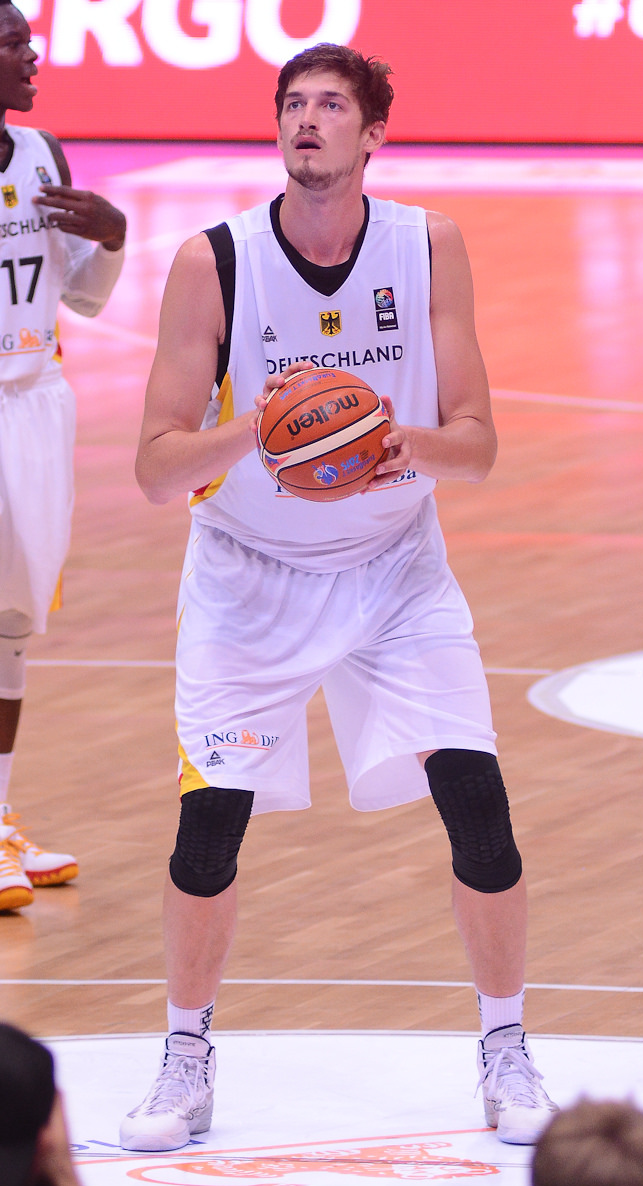 Tibor Pleiß playing for Germany in friendly game against France on 30 August 2015.